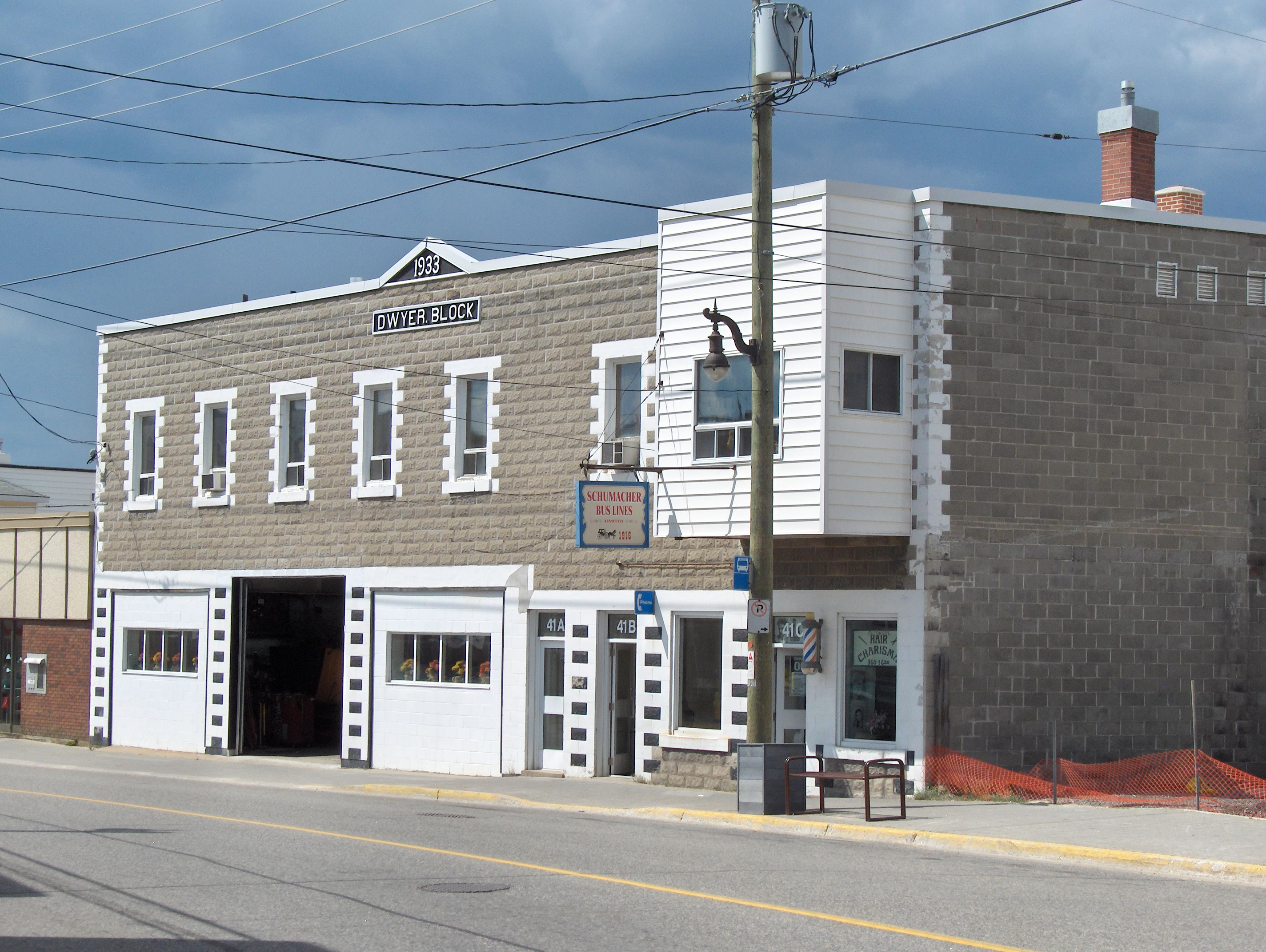 Author - Monogram Source - HP Photosmart R717